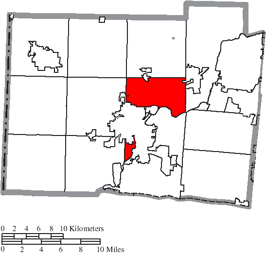 Map of the municipal and township boundaries of Butler County, Ohio, United States, as of the 2000 census, with the location of Saint Clair Township highlighted. Township borders are shown only in unincorporated areas in order to differentiate incorporated and unincorporated areas more clearly.